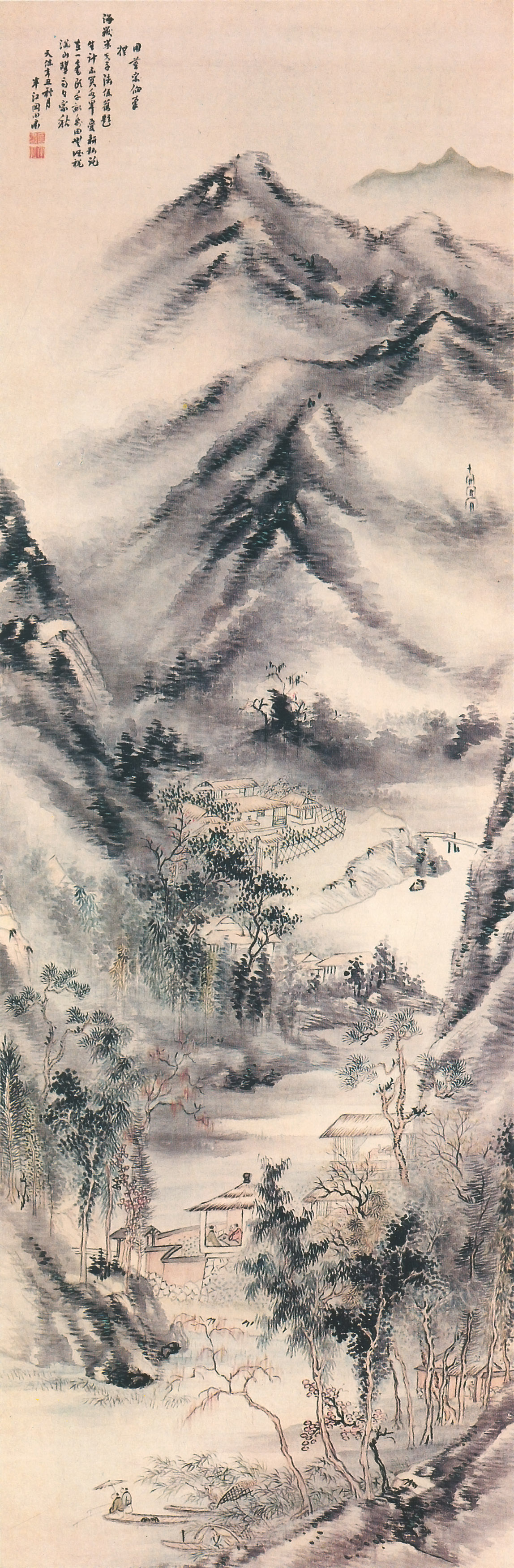 Painting. Title: Rain in the deep mountains.